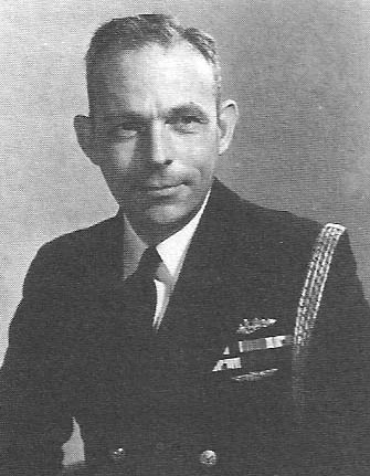 Admiral Morton C. Mumma, USN was the WWII submarine commanding officer of USS Sailfish, and later a PT-boat squadron commander.